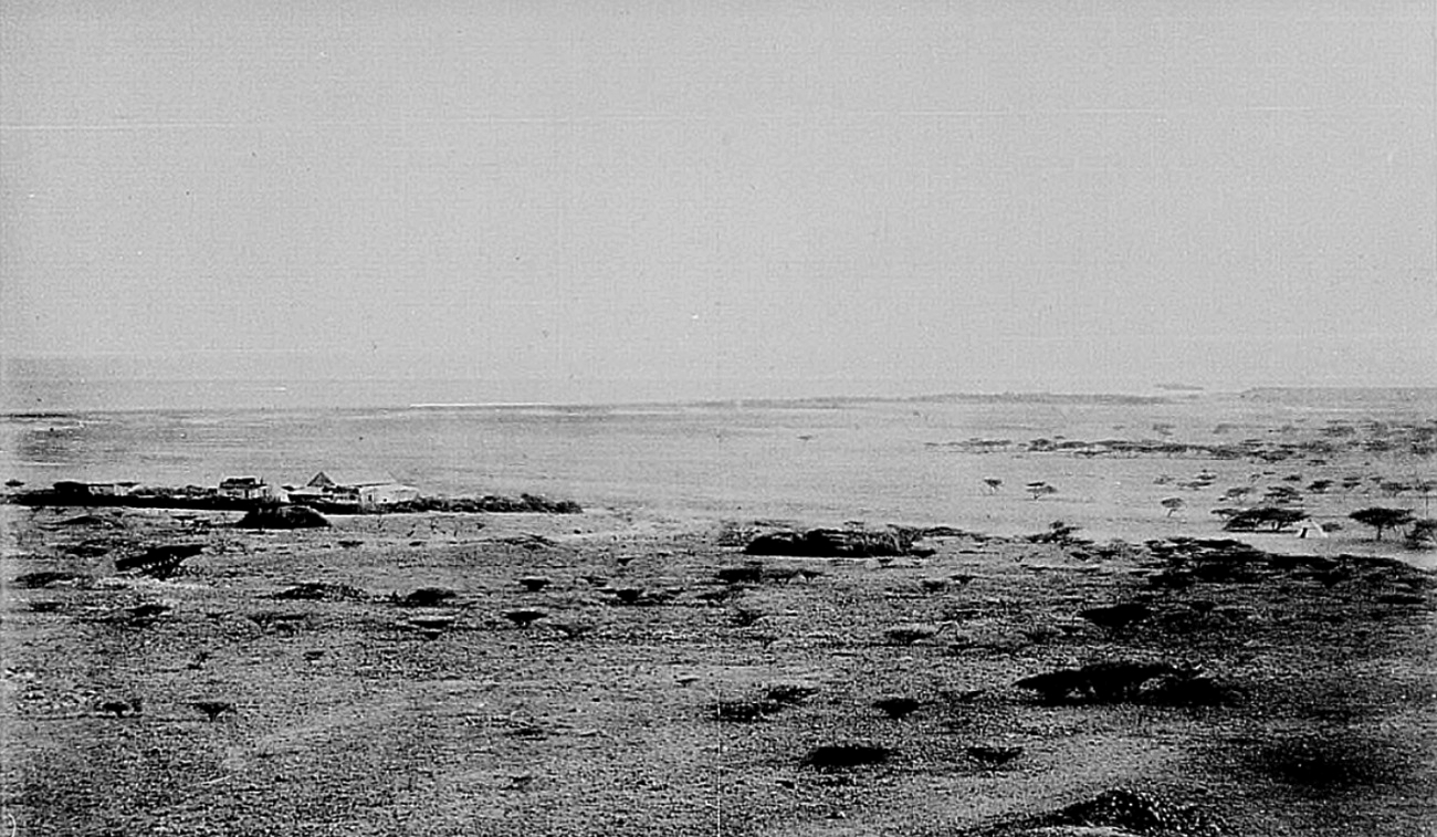 Panorama of Obock in 1882. The sea is visible in the background. On the left, the first French settlement built on the French territory. On the right, the tent of French trader M. P. Arnoux, who was assassinated the same year. Photograph by Georges Revoil.The new settlement was separated from the sea (background) by a hundred yard of alluvial mud.